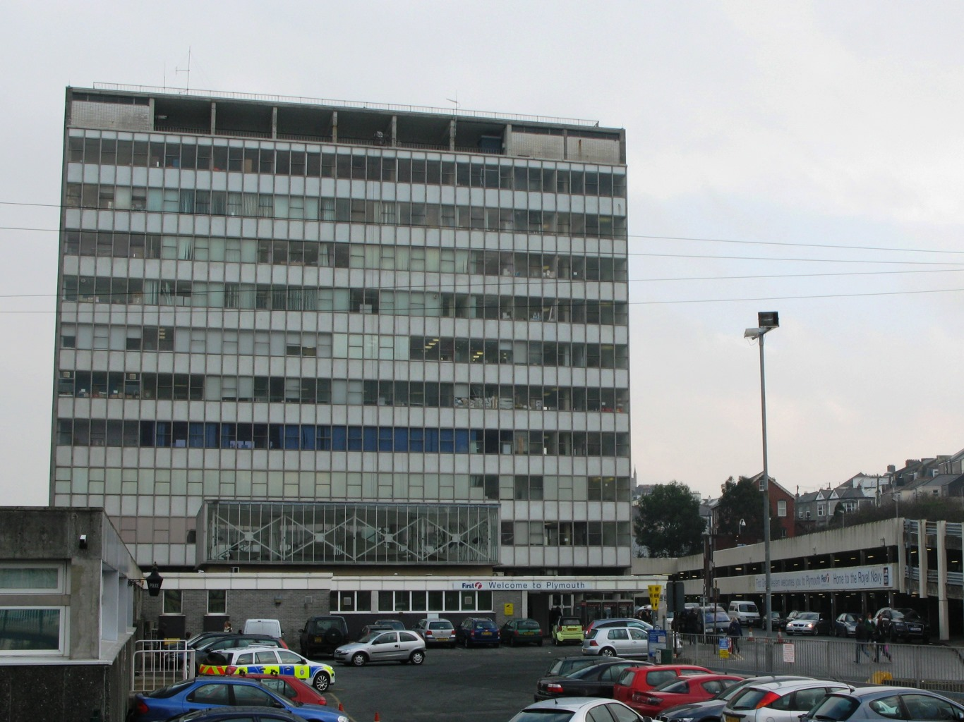 Inter City House, the office block erected at Plymouth North Road railway station (in Devon, England) in the 1960s to house the local railway offices.